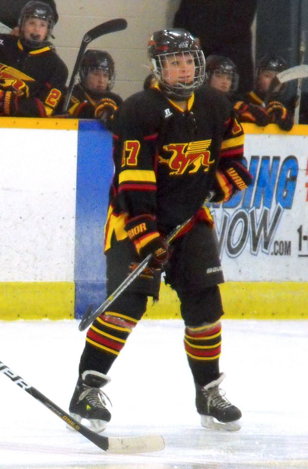 This photo was taken by Devan Mighton during the 2014-15 OUA season.